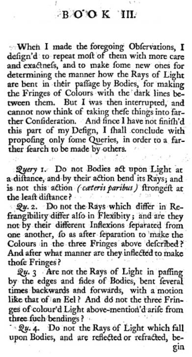 Opening page of Isaac Newton's Queries, book three to the Opticks, first published in 1704